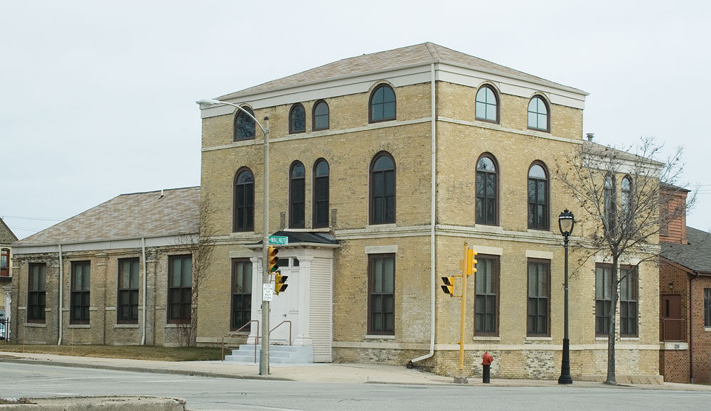 Baasen House German YMCA, National Register of Historic Places, city of Milwaukee, Wisconsin.